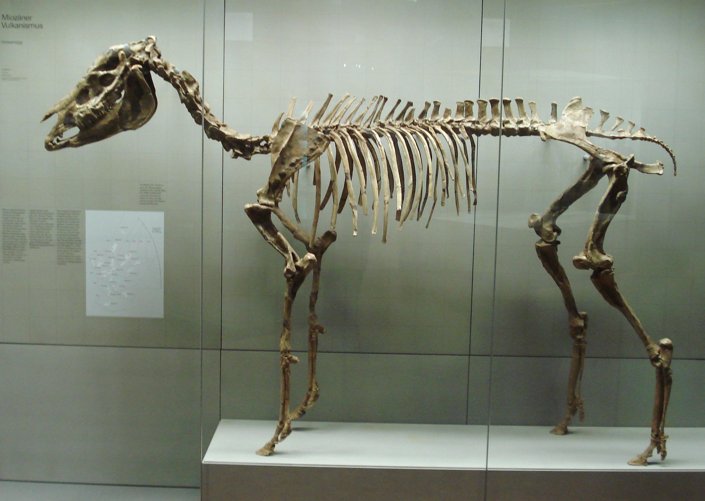 fossil of Hippotherium gracile